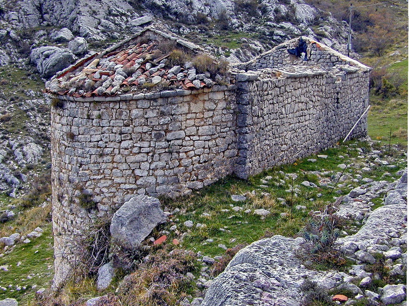 Siagne river : Saint-Martin river on old Napoleon way in Escragnolles